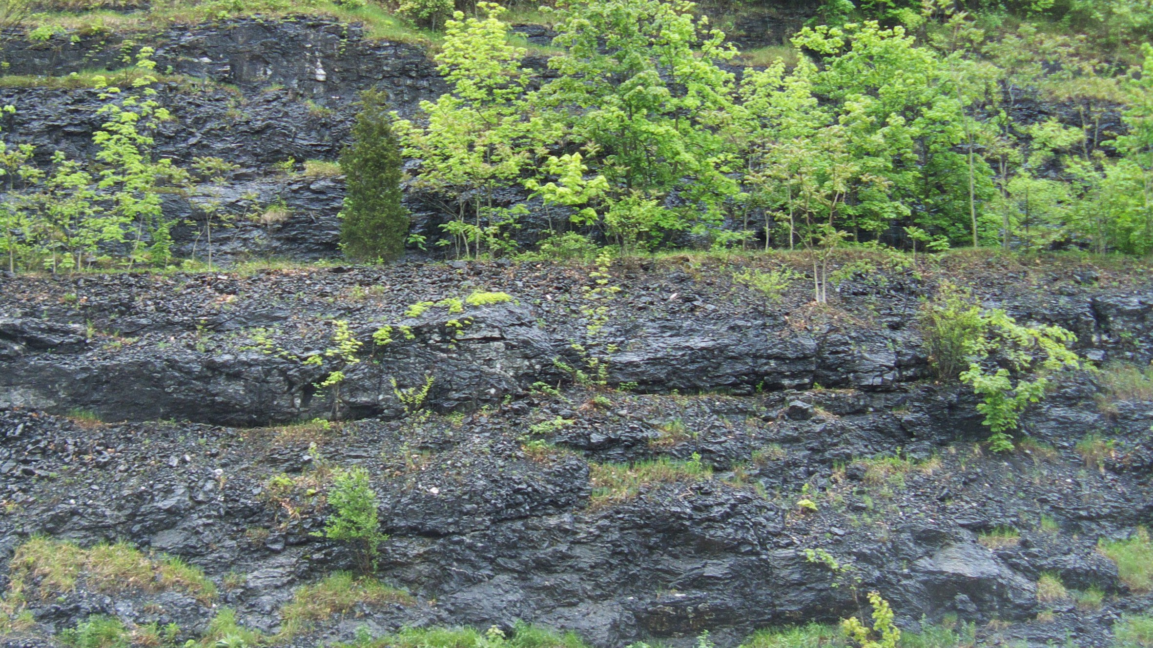 Marcellus Black Shale exposure on Interstate 80 at M.P. 307